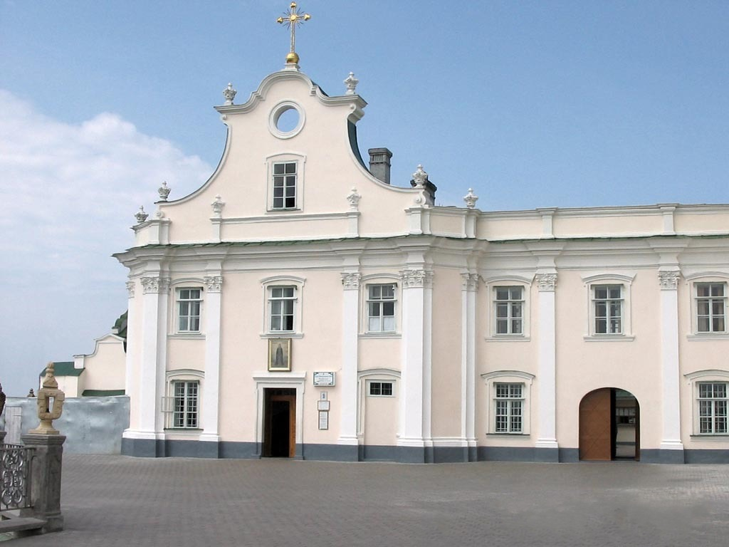 Job of Pochaiv's Church